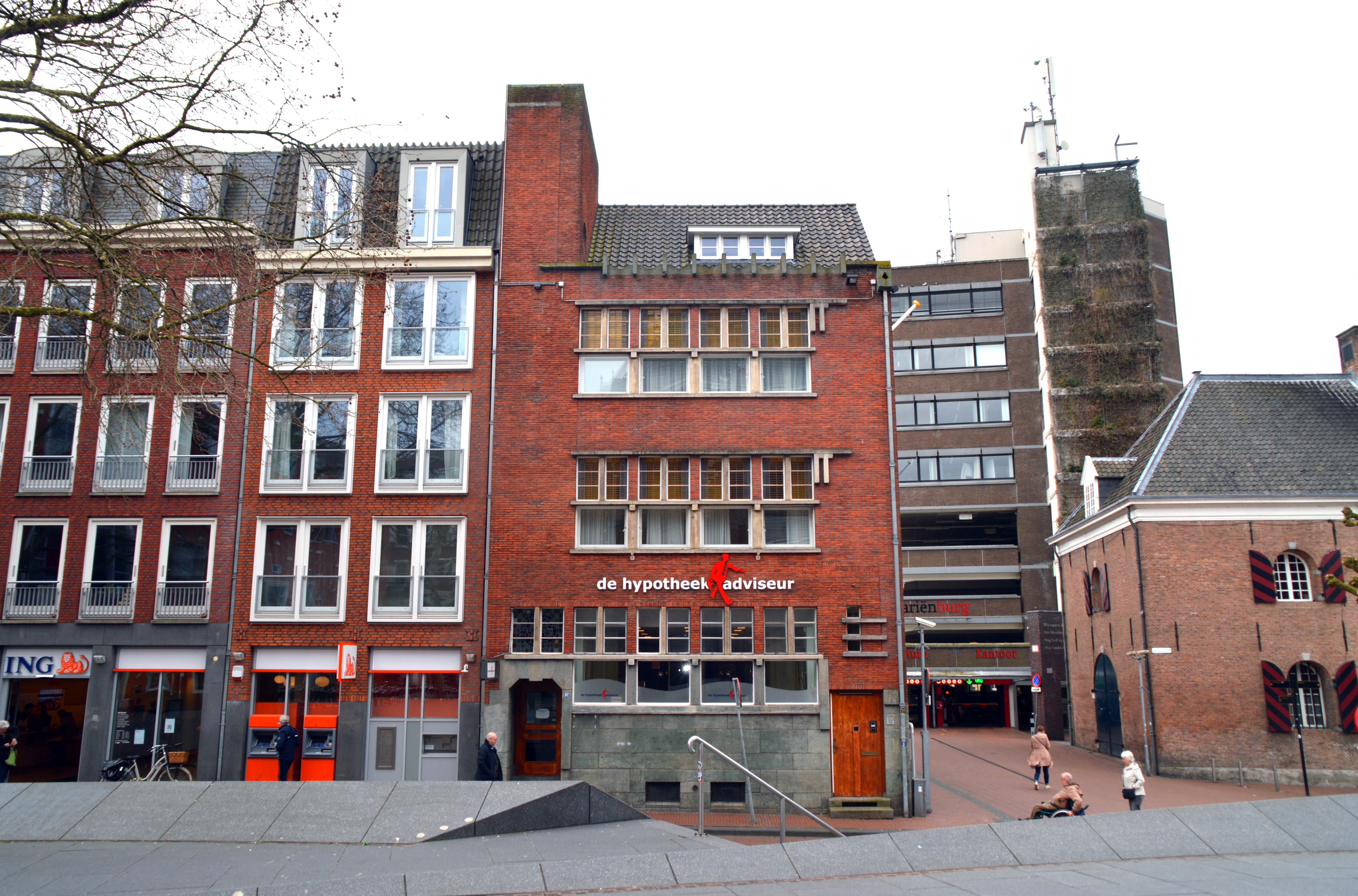 Chamber of Commerce NIjmegen former building 1932 Charles Estourgie De Stijl